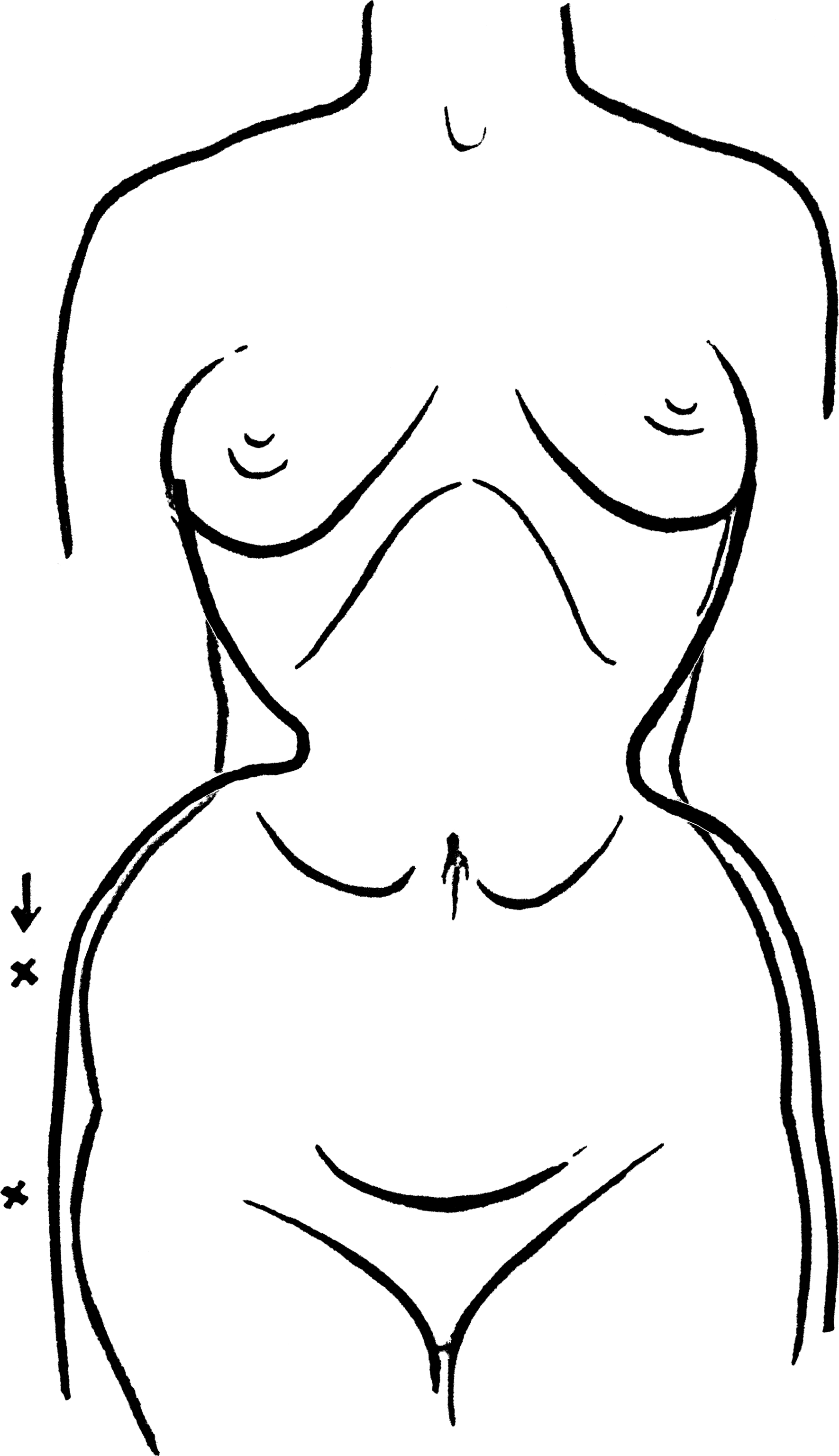 Chest developped before corset worn.